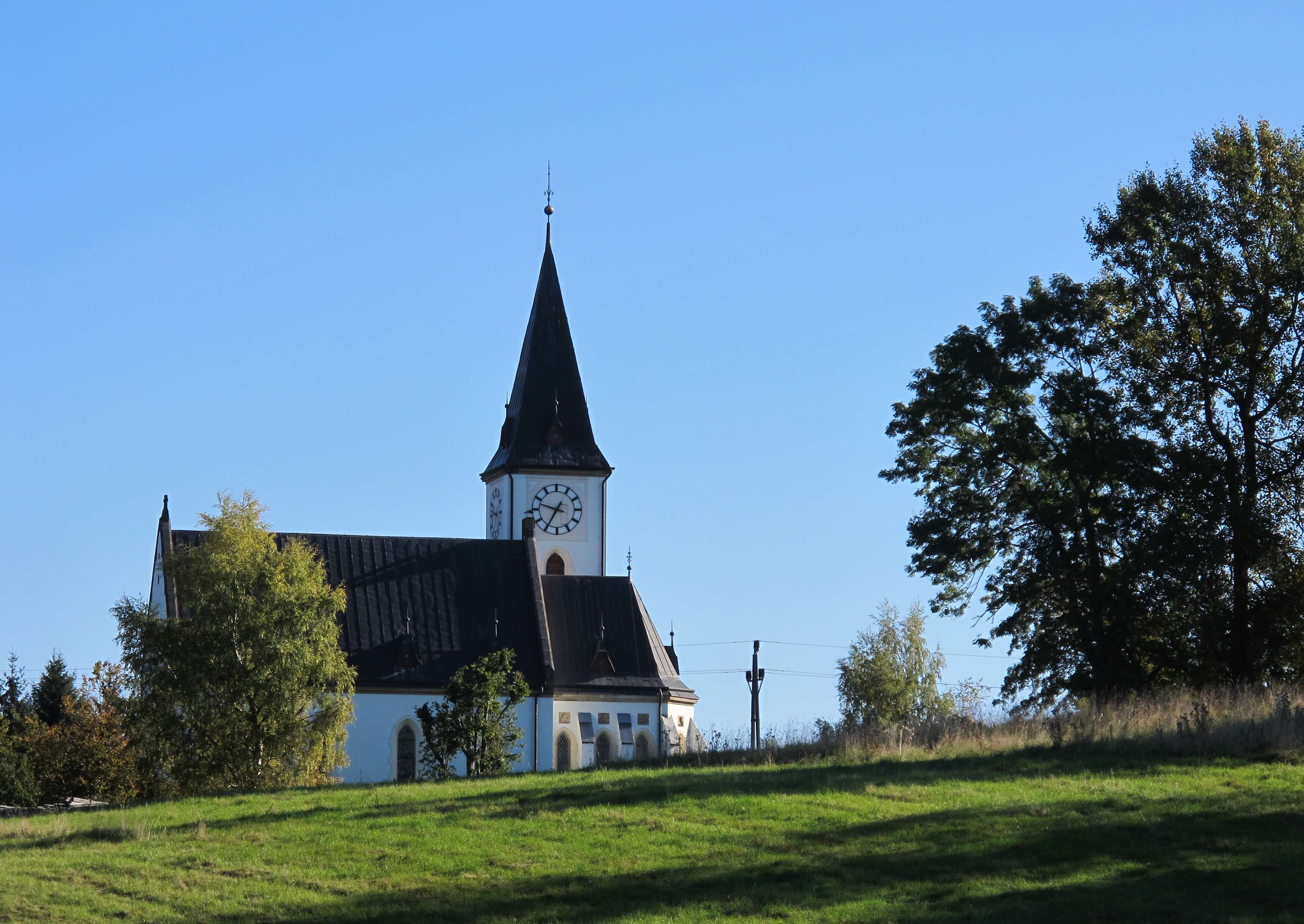 Church in Horní Maxov (part of the Town Lučany nad Nisou), Jablonec nad Nisou District in Czech Republic